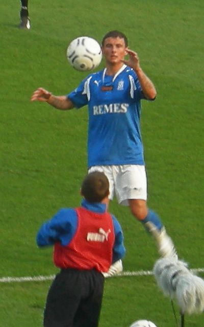 soccer player from Polish football club Lech Poznań